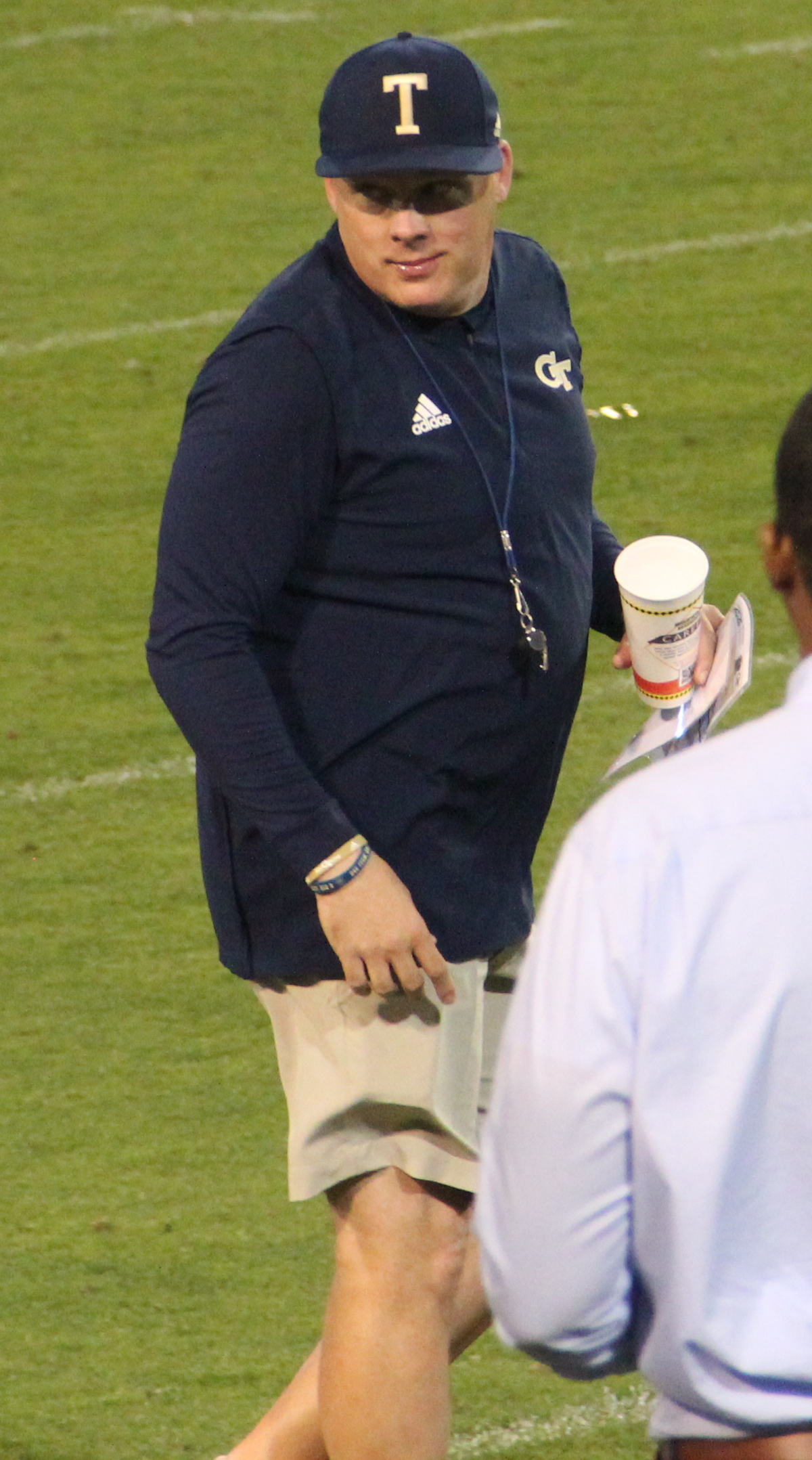 GT Football Spring Game 2019